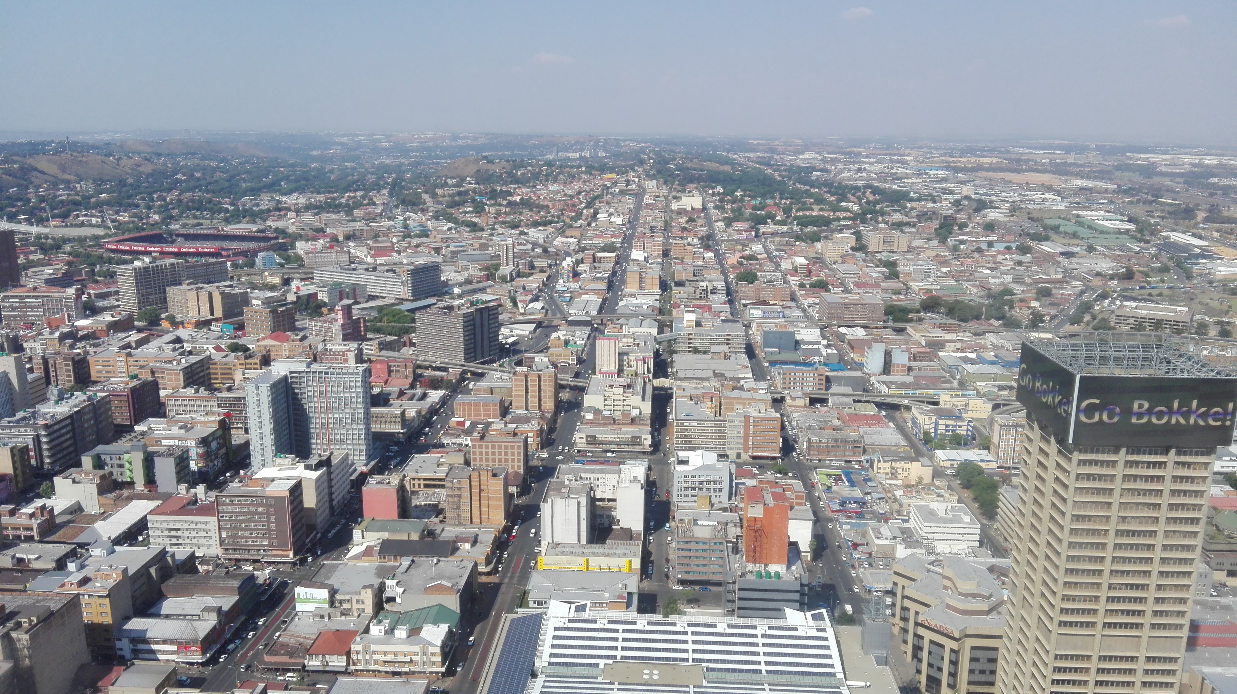 View from the tallest building in Africa This is an image of music and dance from South Africa